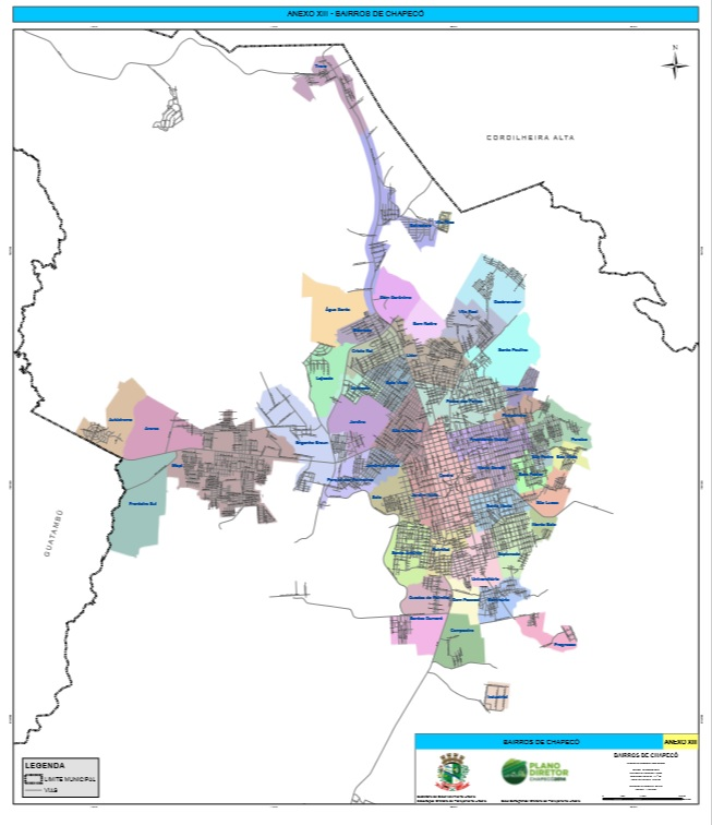 Bairros de Chapecó